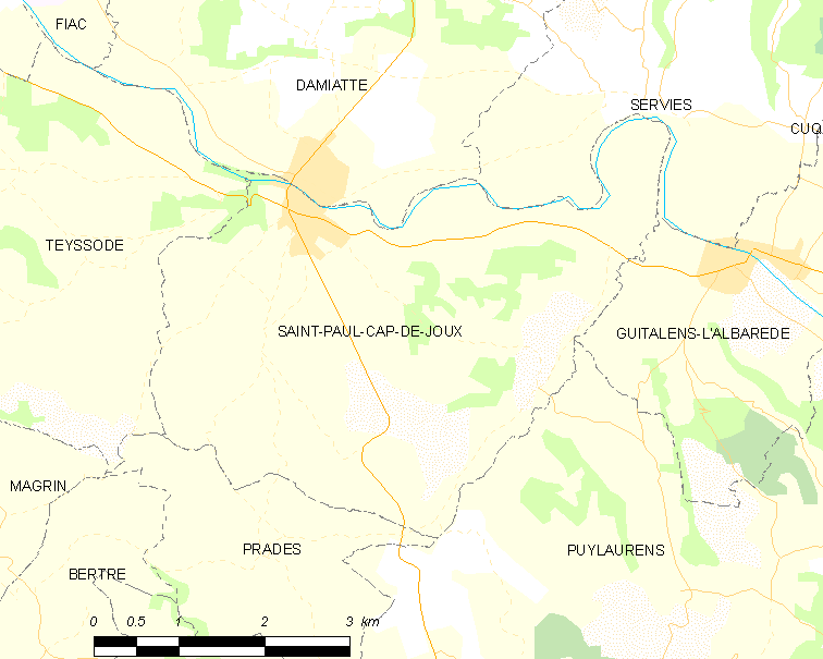 Map of French municipality Saint-Paul-Cap-de-Joux